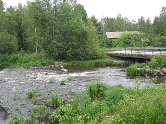 Sääkskoski rapid in river Kauvatsanjoki, Kokemäki, Finland.